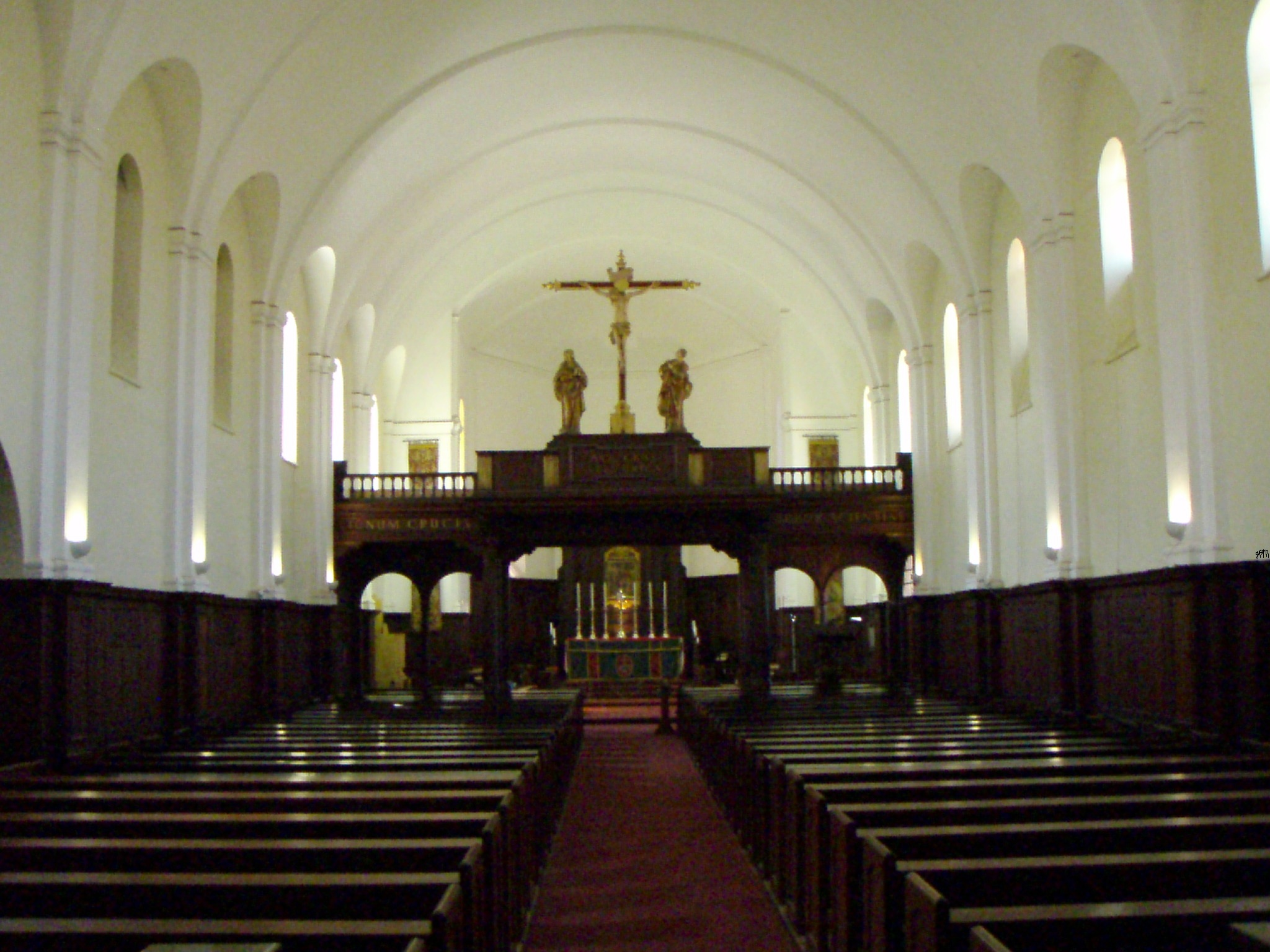 Main Chapel. St John's College